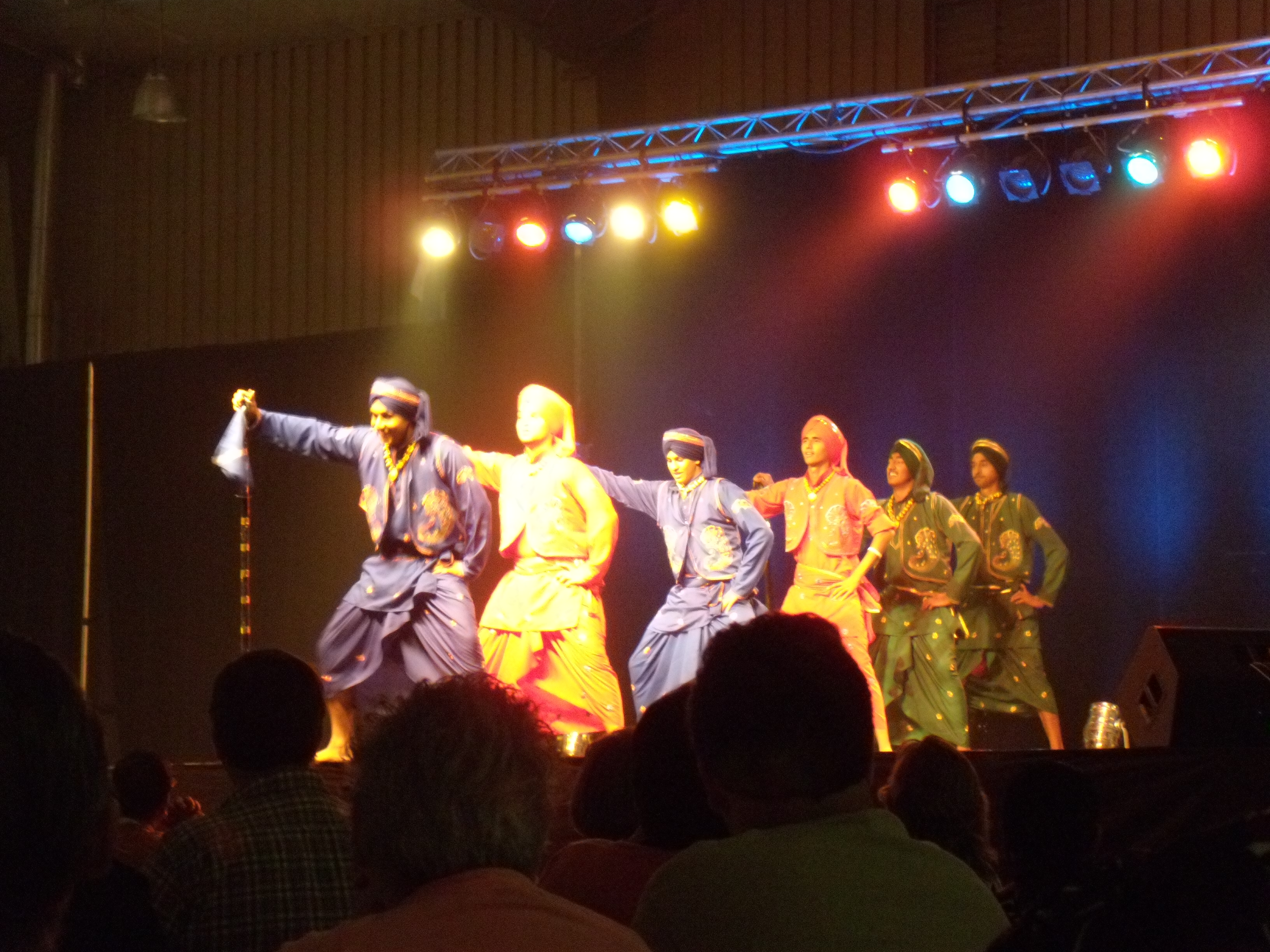 Performers at the 2012 Folklorama India pavilion in Winnipeg, Manitoba, Canada.